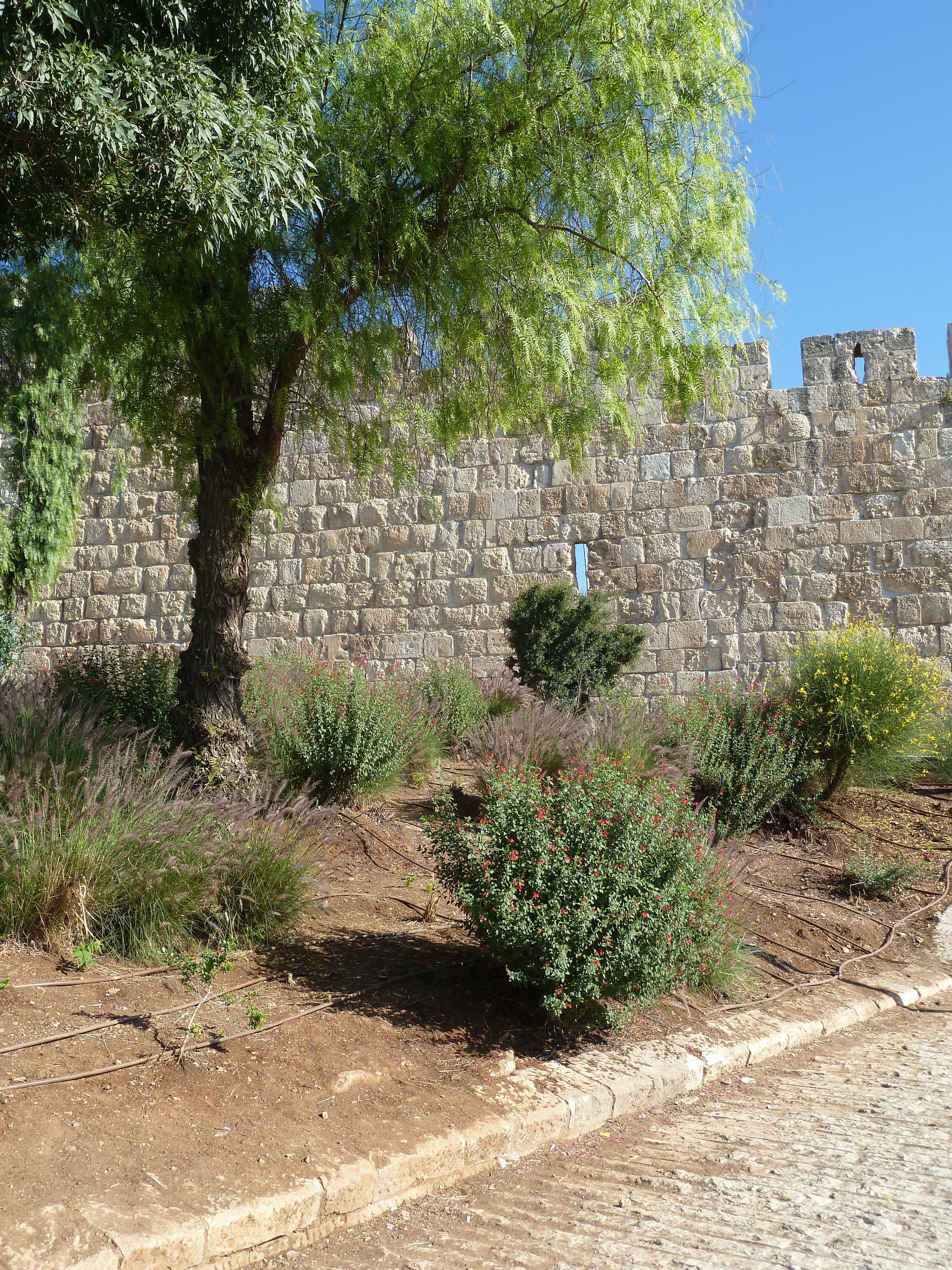 Old City Walls in Jerusalem, Southern side, Mount Zion, Vicinity of Zion Gate